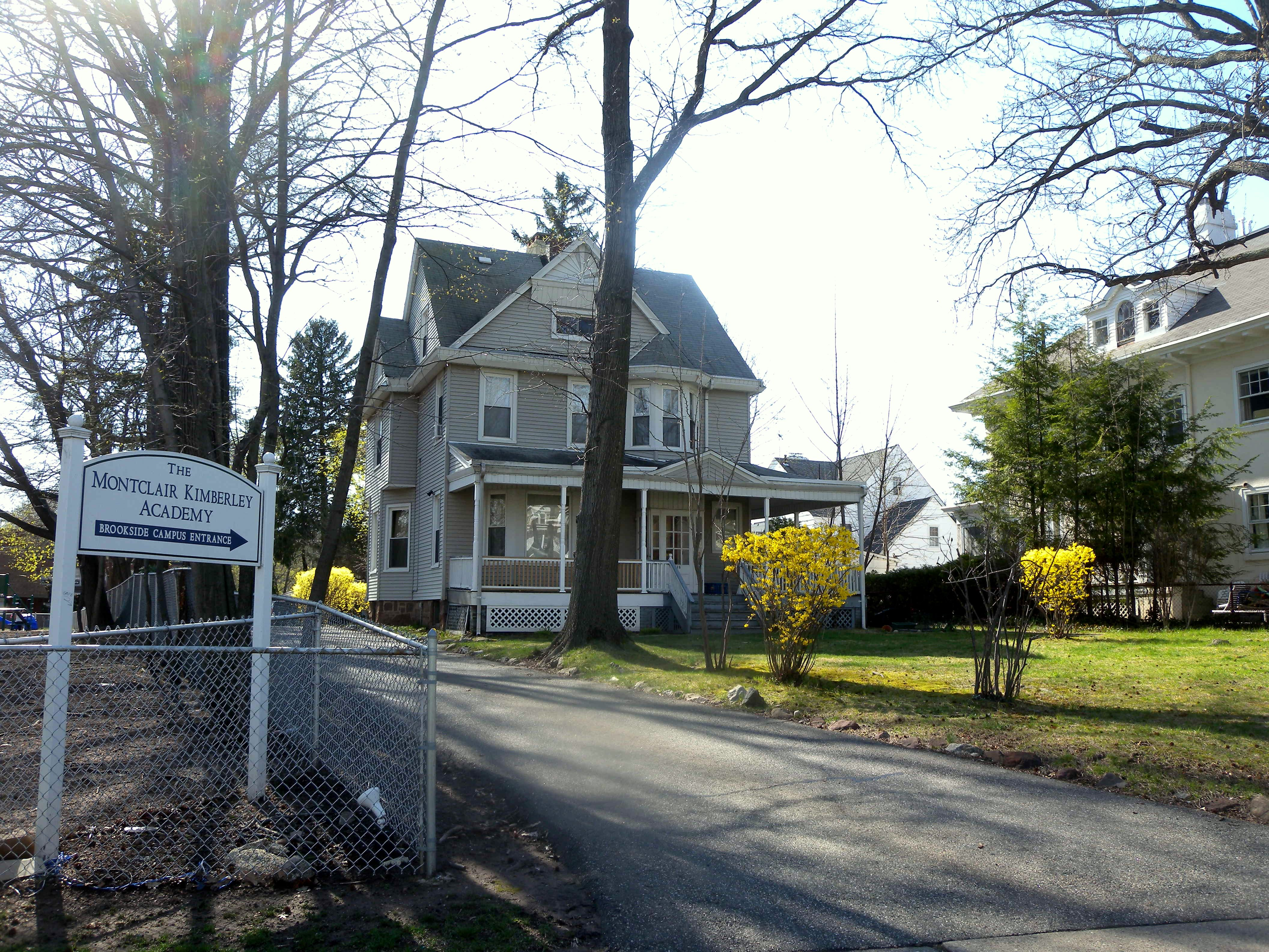 Looking west at Brookside Campus of Kimberly School on a sunny early afternoon.